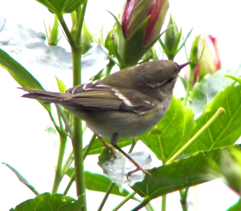 Yellow-browed Warbler Phylloscopus inornatus, Hong Kong. Original description: "Happy to meet again with this little new friend near my home."